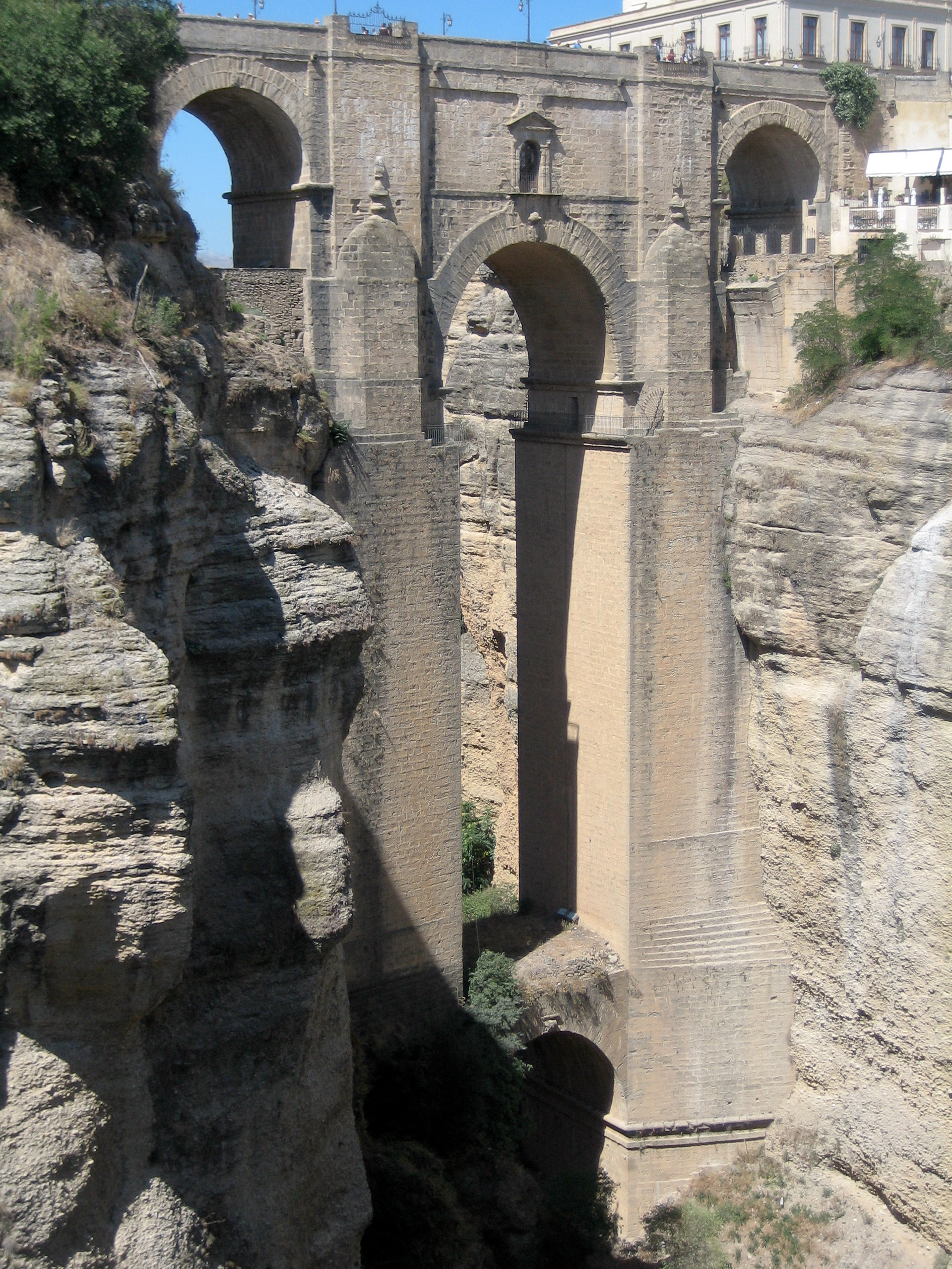 Punte Nuevo Bridge